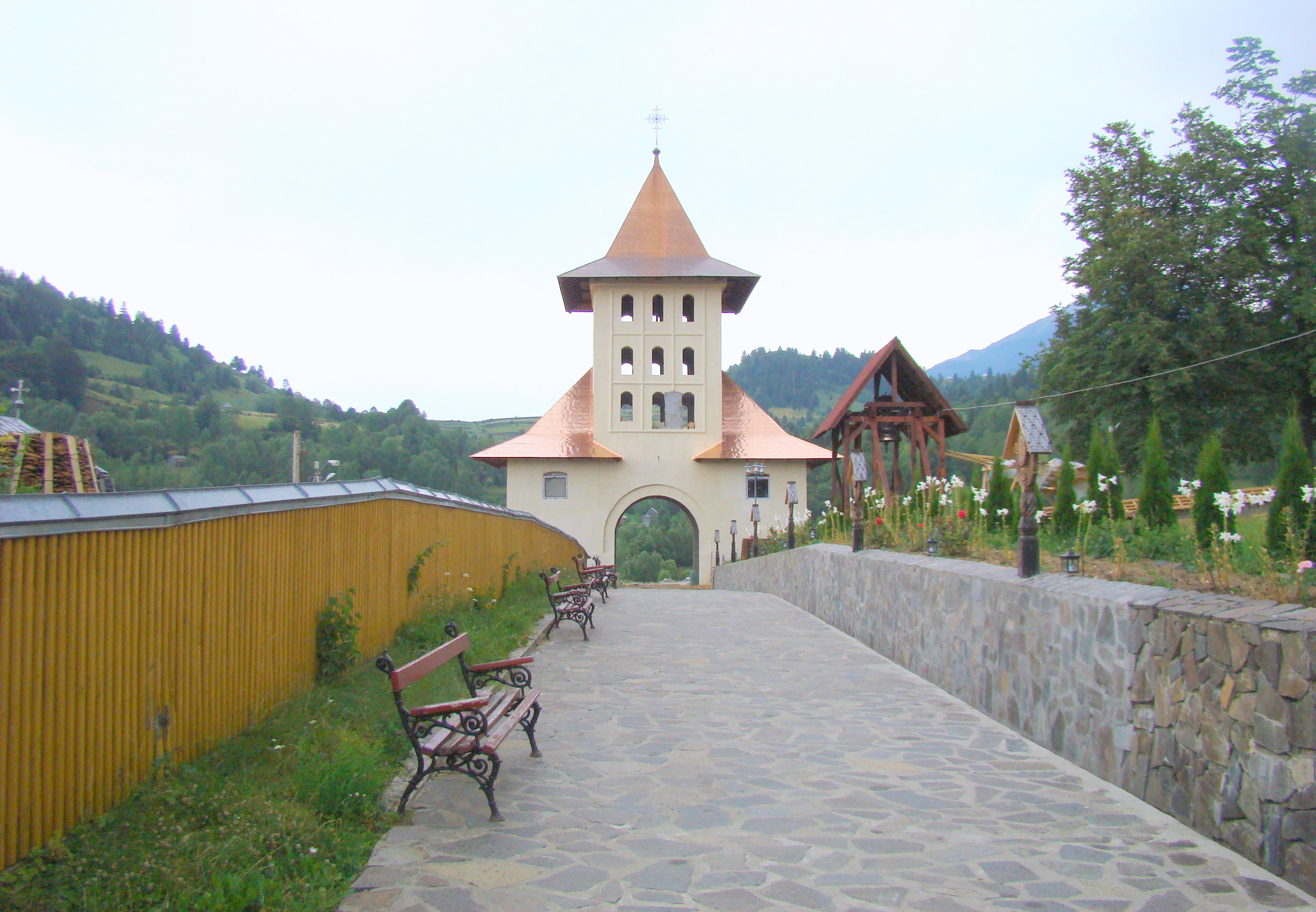 Moisei Monastery, Maramureș county, Romania